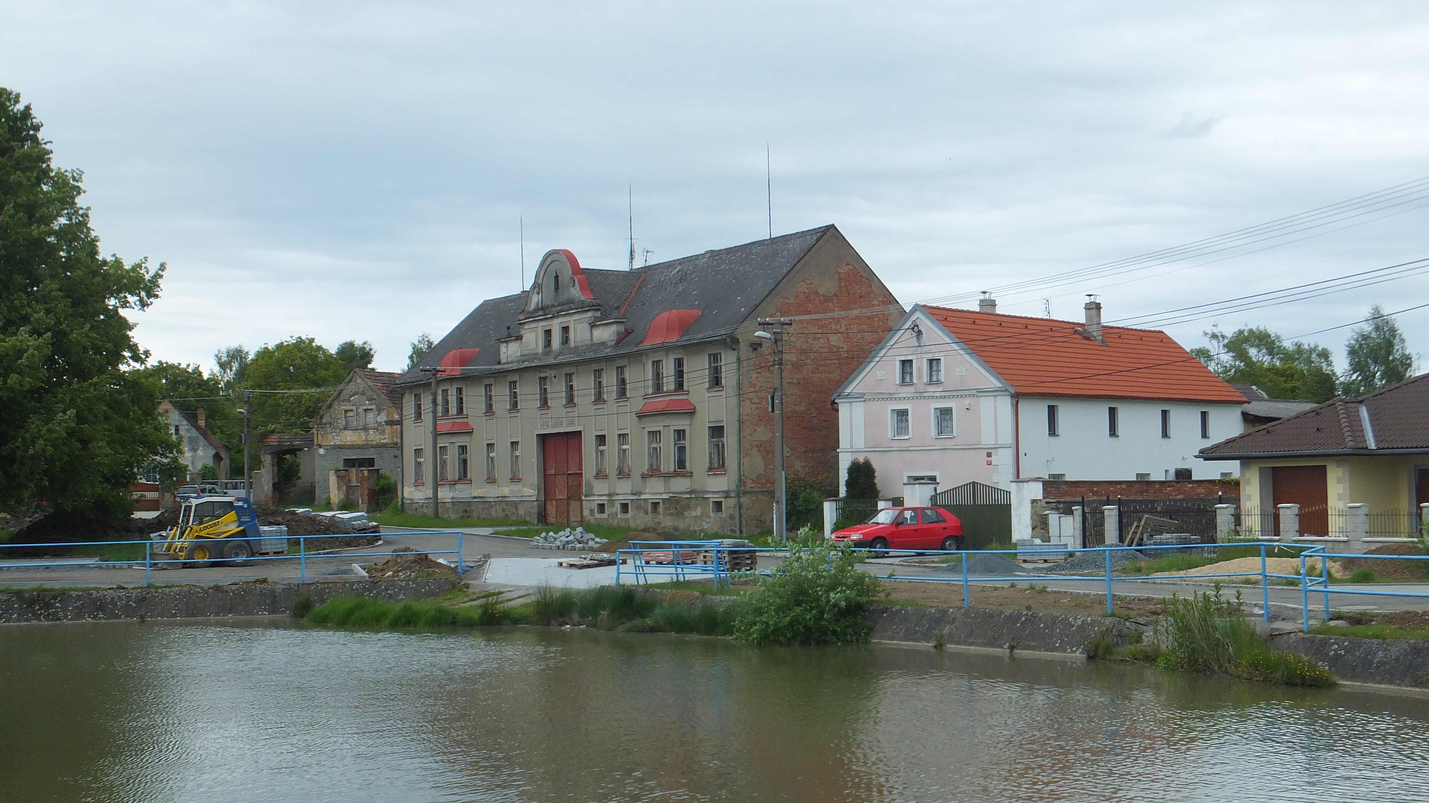 The eastrern side of the square in Zhoř (Tachov District)